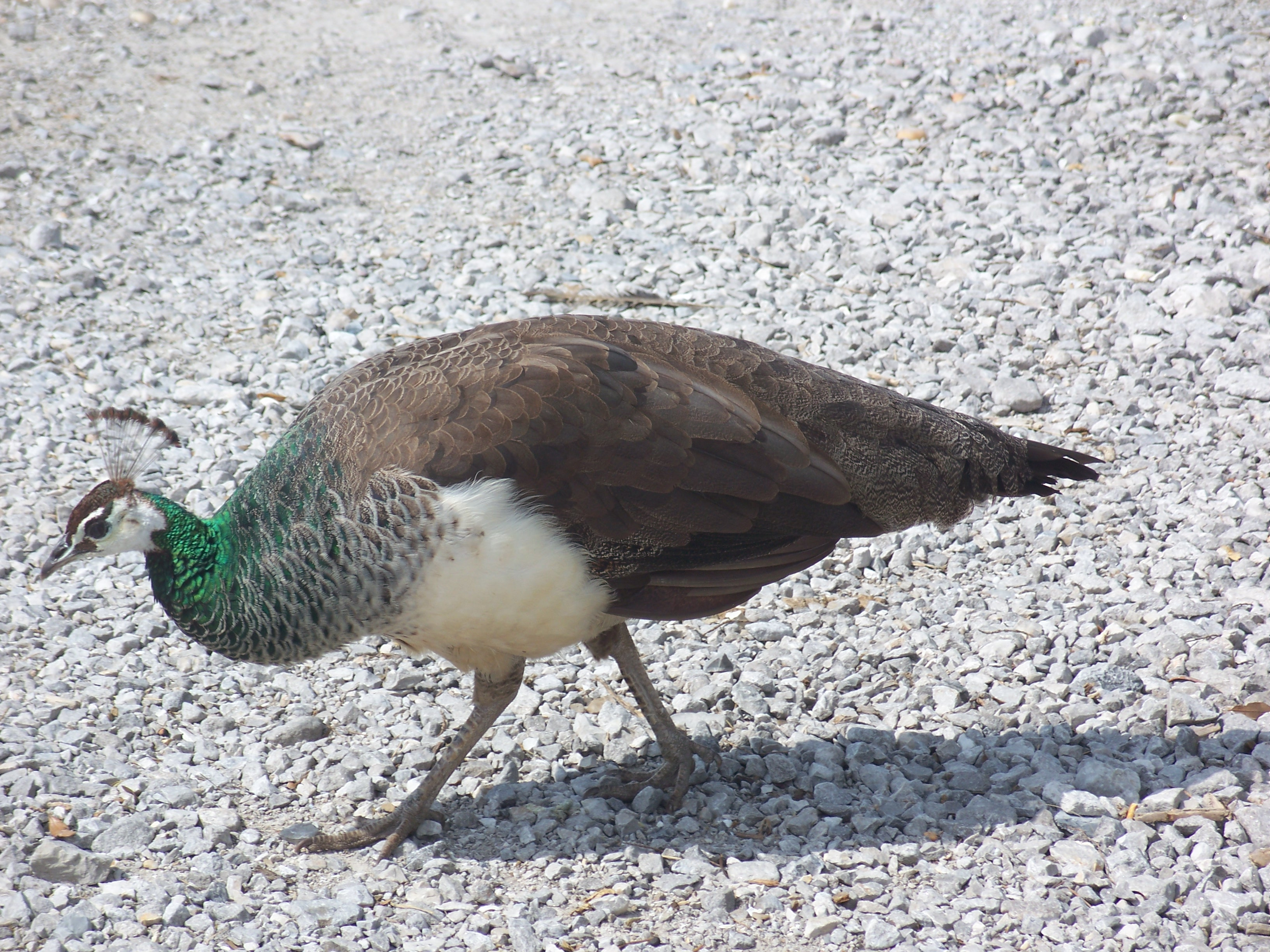 Pavo cristatus Fort Walton Beach, Florida